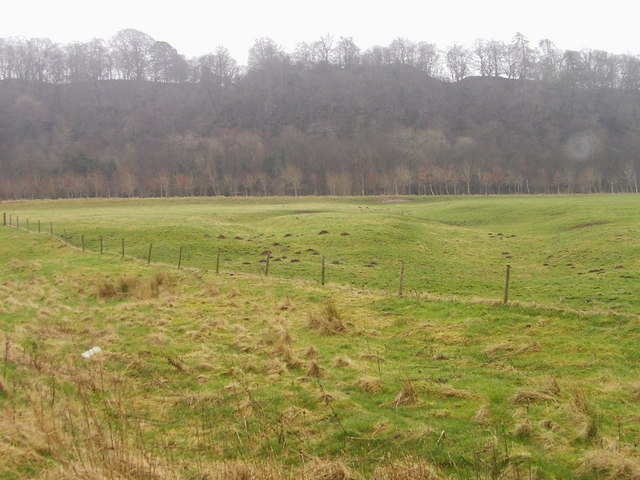 Earthworks and Liddel Strength Earthworks in the foreground and Liddel Strength in the background